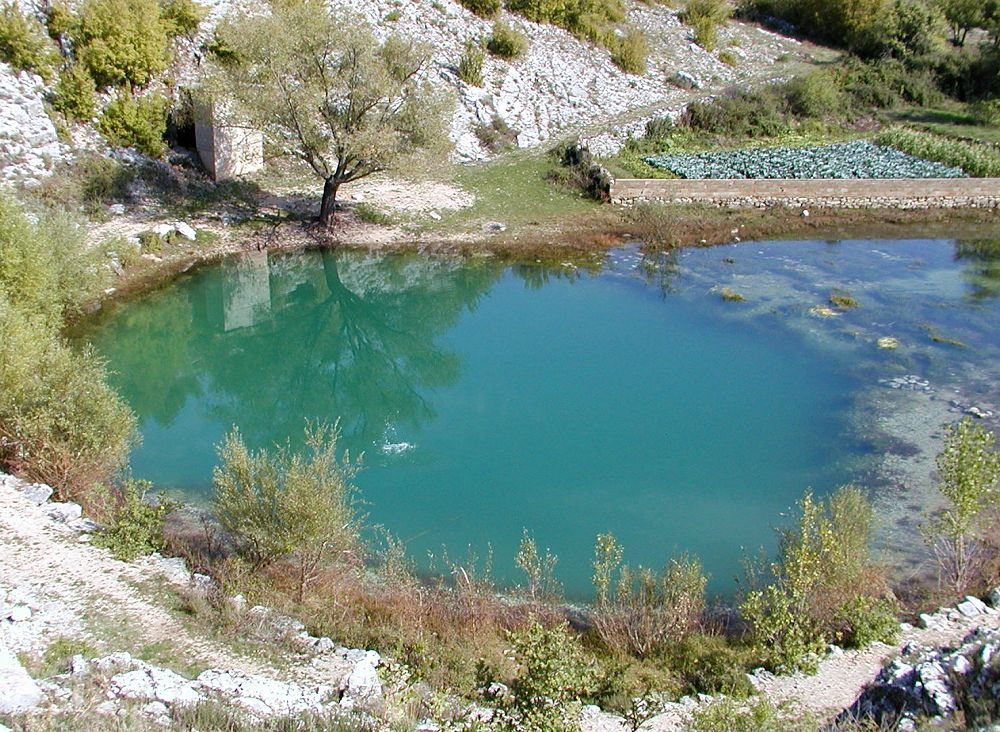 Cetina, a deep Karst spring, in 385m at the western slopes of the Dinaric Alps; ca. 50km north of Split, southern Croatia. In the depth of the clear blue water a huge cave portal issues large volumes of karst water. The spring feeds river Cetina.